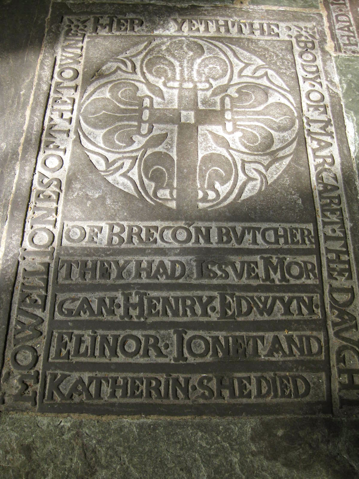 Late 17th centry Ledger Slab in Brecon Cathedral. The slabs appear to be slate, with cameo lettering in cartouches.